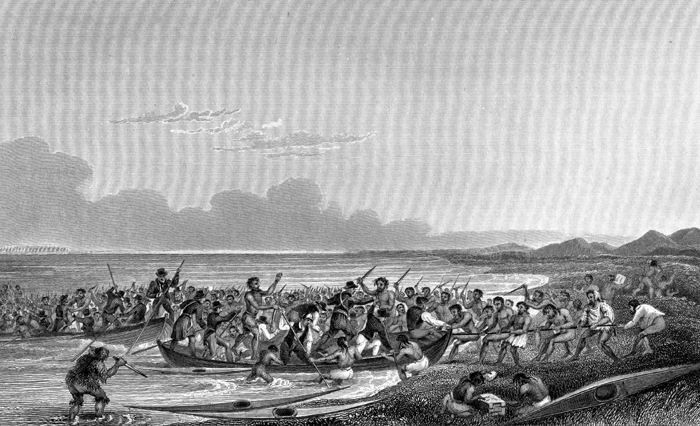 “The Esquimaux Pillaging the Boats” (July 7, 1826) [drawn by George Back]